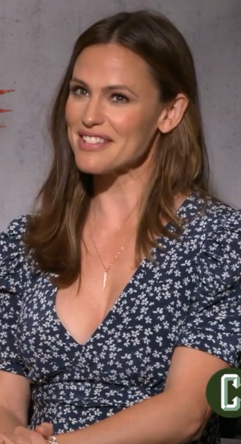 Jennifer Garner in interview about her latest film "Peppermint" in 2018